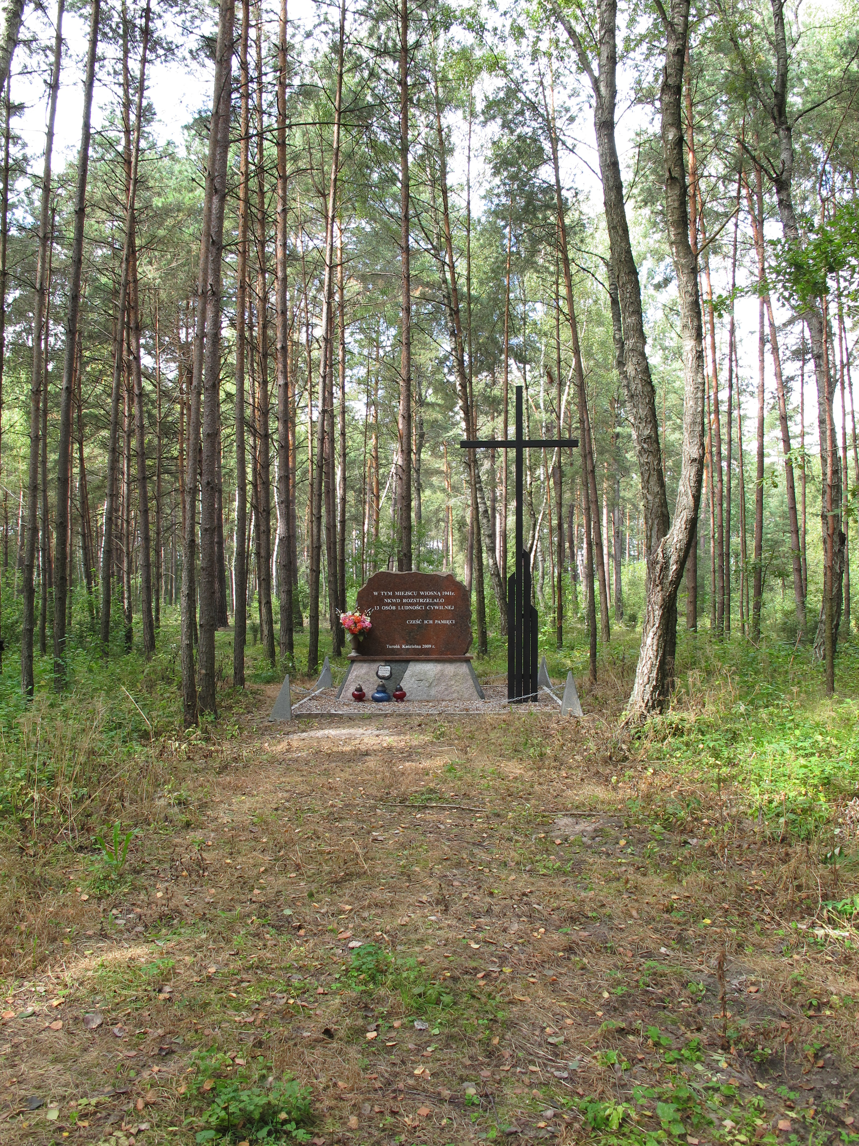 „Little Katyń” monument comemorating those shot by the NKVD in 1941, in the „Podlipie” forest, by the road between villages Turośń Kościelna and Borowskie Gziki, gmina Turośń Kościelna, podlaskie, Poland